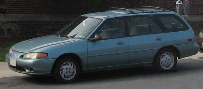 1997-1998 Mercury Tracer photographed in College Park, Maryland, United States, North America.